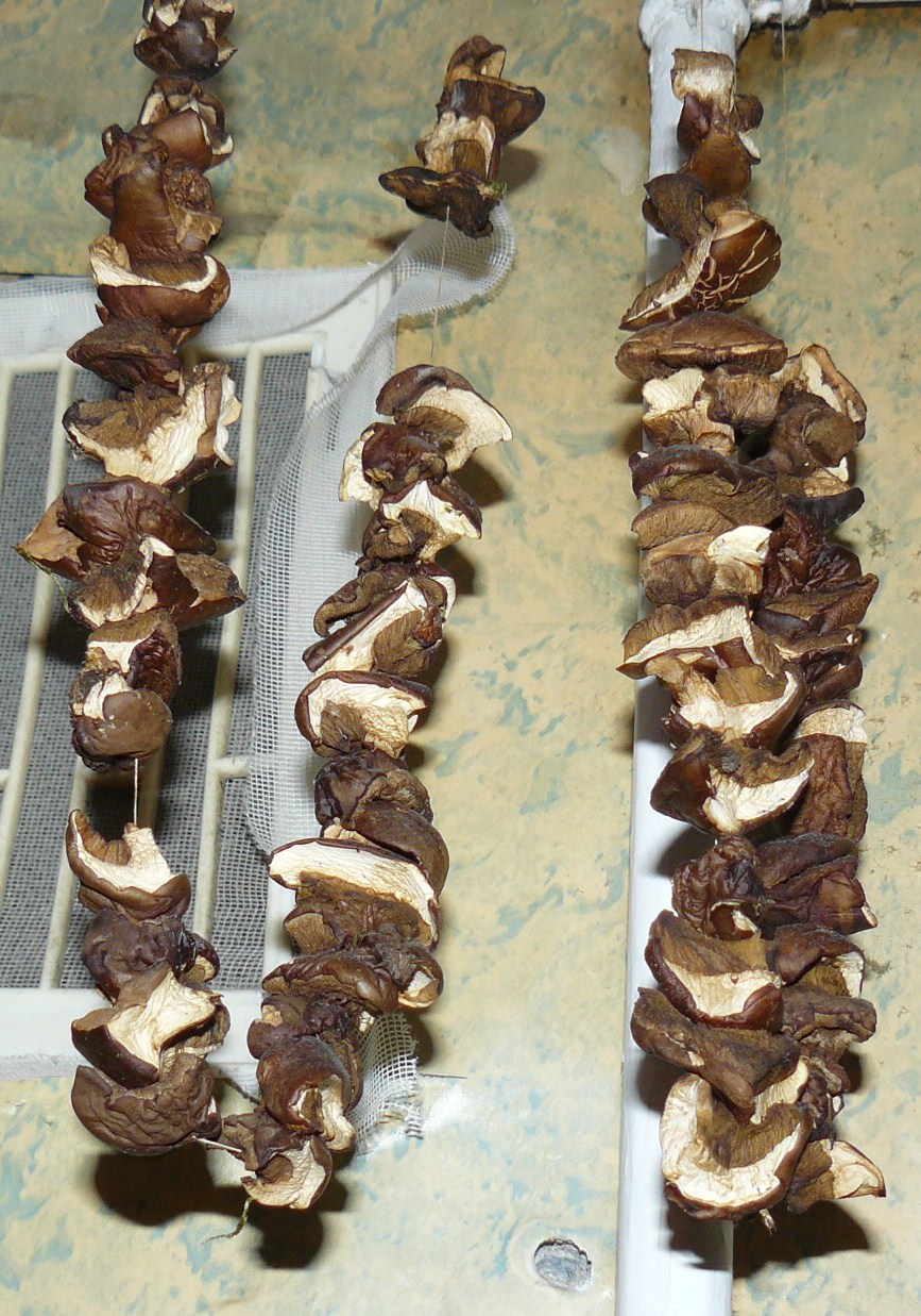 Drying mushrooms in a traditional Polish hut.